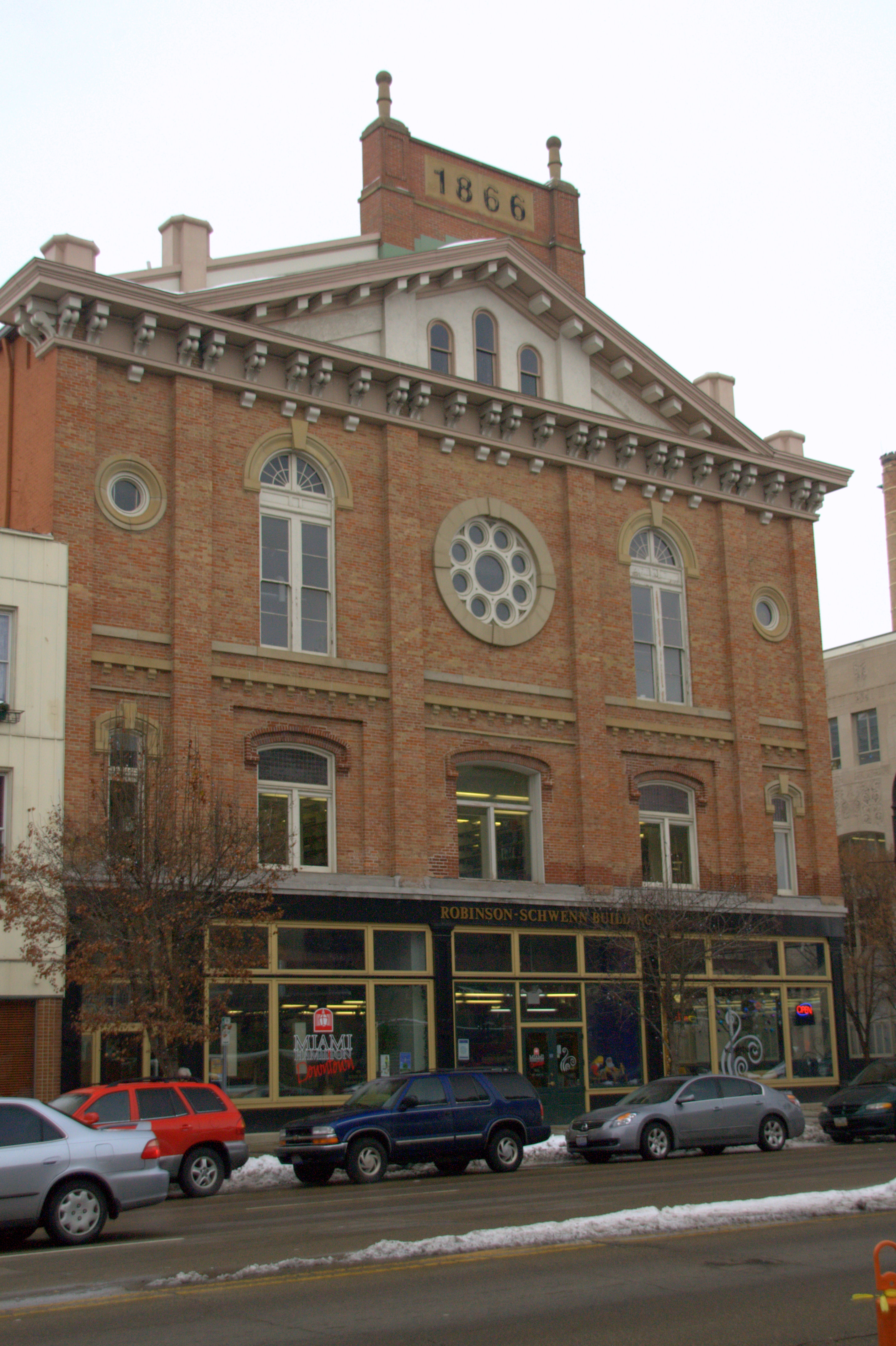 Dixon-Globe Opera House in Hamilton, Oh. Photo by Greg Hume